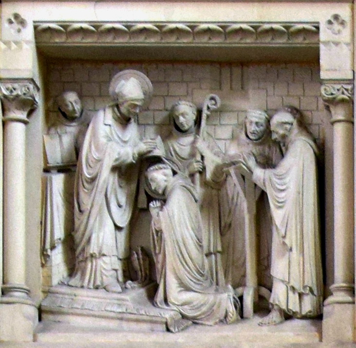 Collégiale Saint-Ursmer (Lobbes) - Detail of the Saint Ursmer altar: Saint Ursmar receives the holy orders as abbot of Lobbes from the bishop of Maastricht, Saint Lambertus(?).